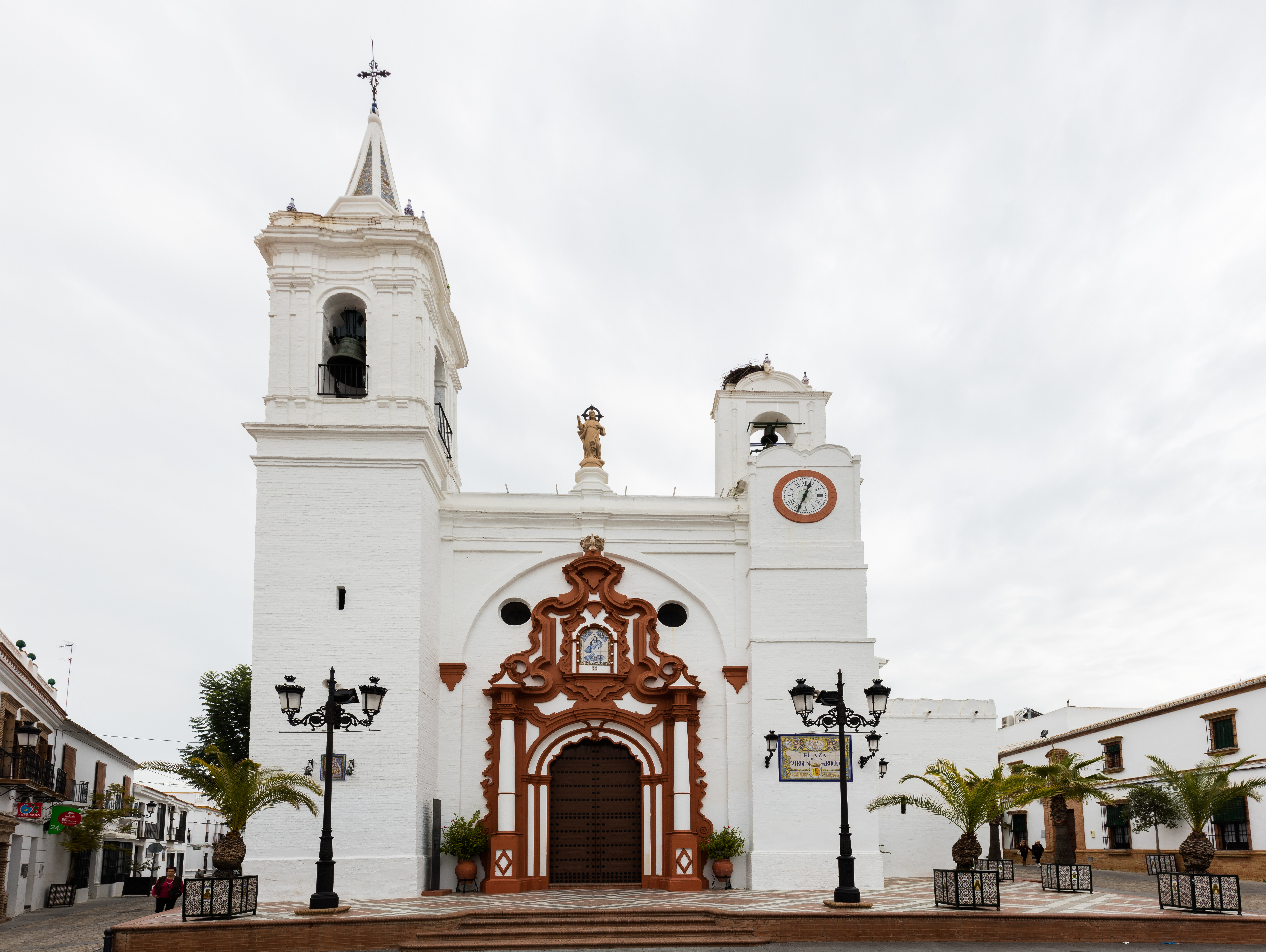 Church of Nuestra Señora de la Asunción, Almonte, Huelva, Spain